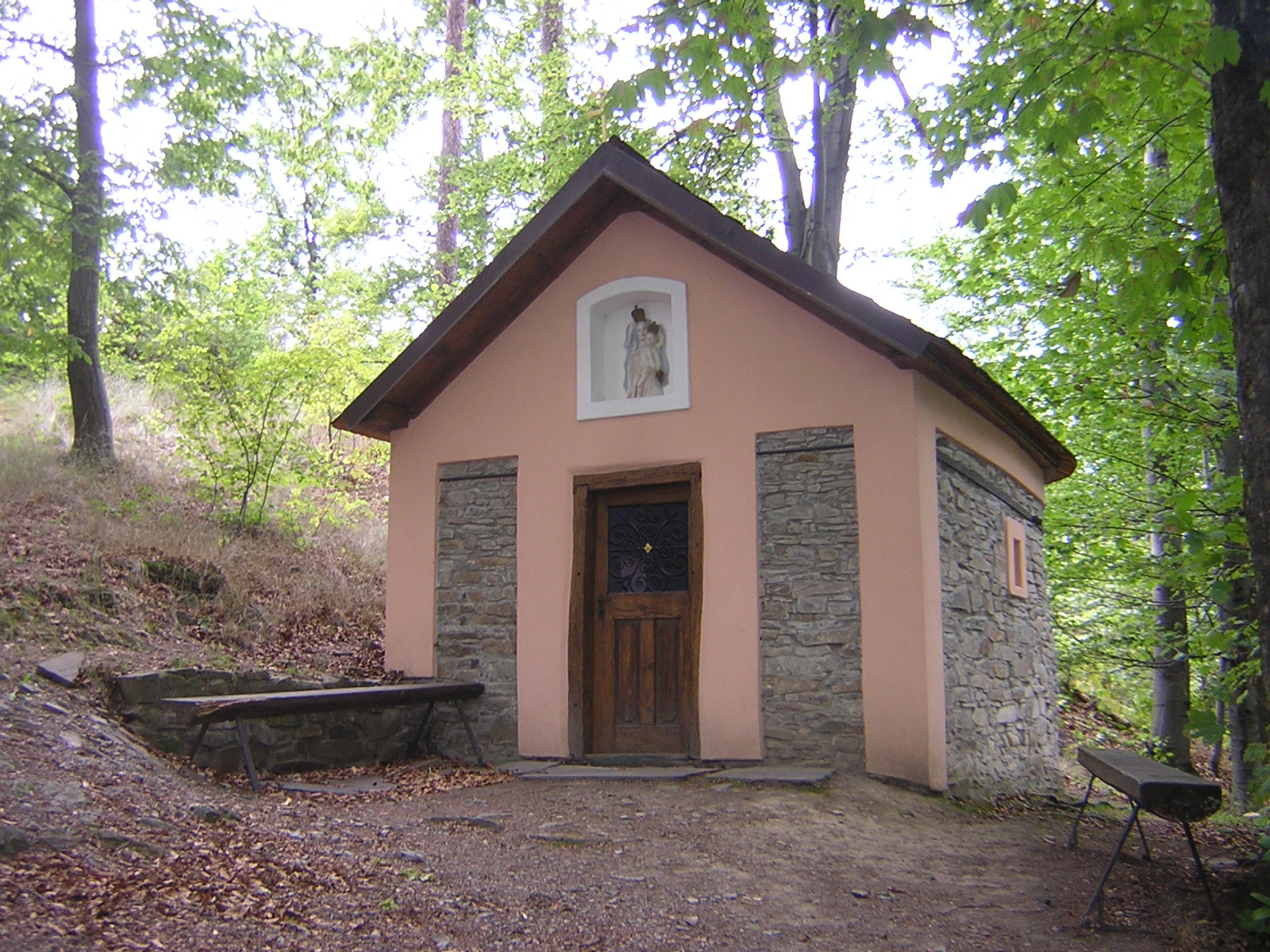 Our Lady of Loretto Chapel near Vrchy, Czechia.